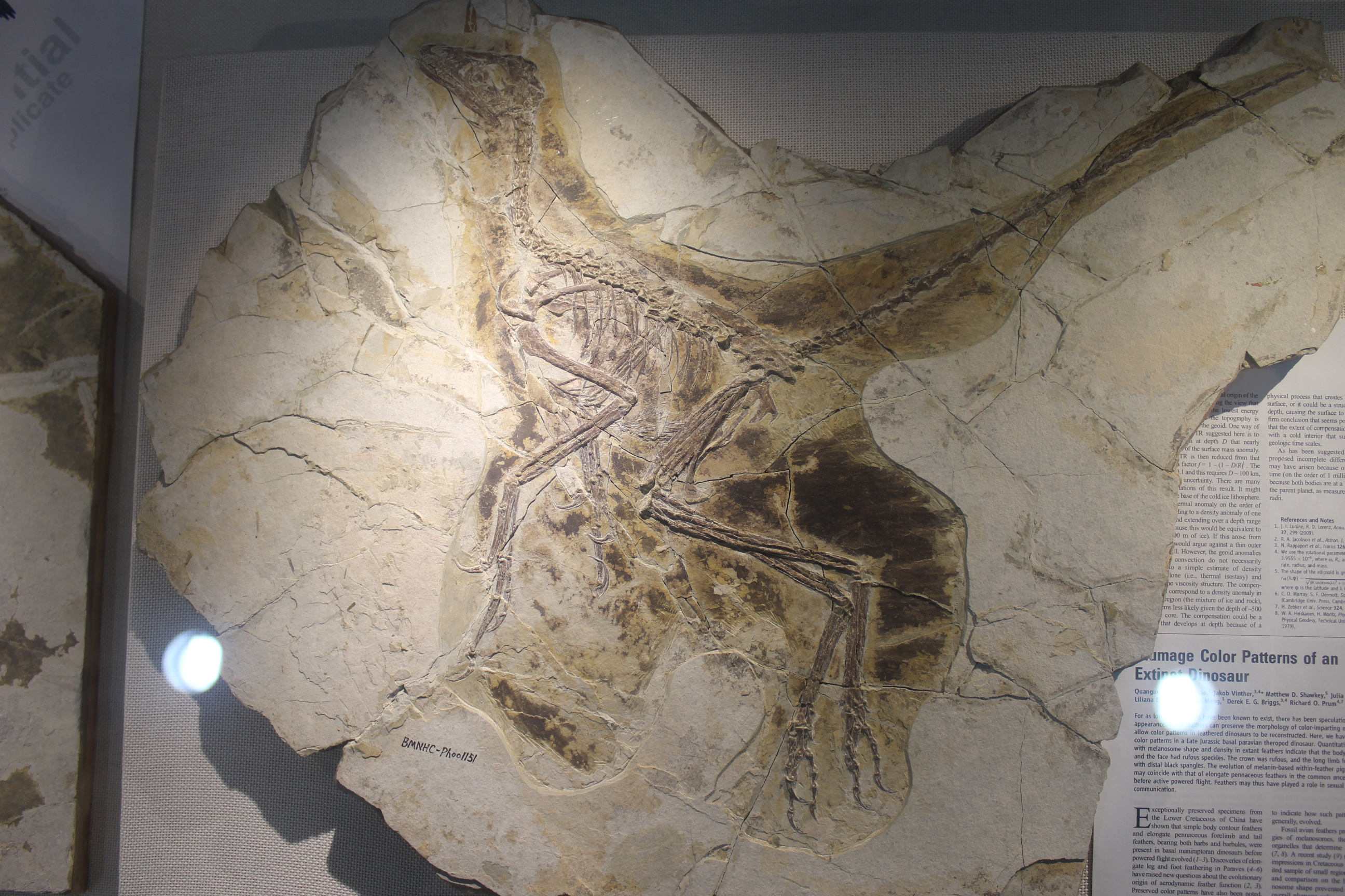 Fossil specimen of Anchiornis huxleyi on display at the Beijing Museum of Natural History.